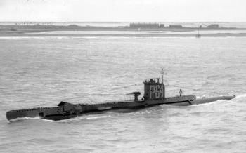 British U class submarine HMSM VANDAL underway.